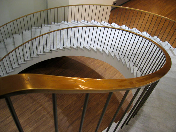 A curving staircase at the Chicago Historical Society.Staircase